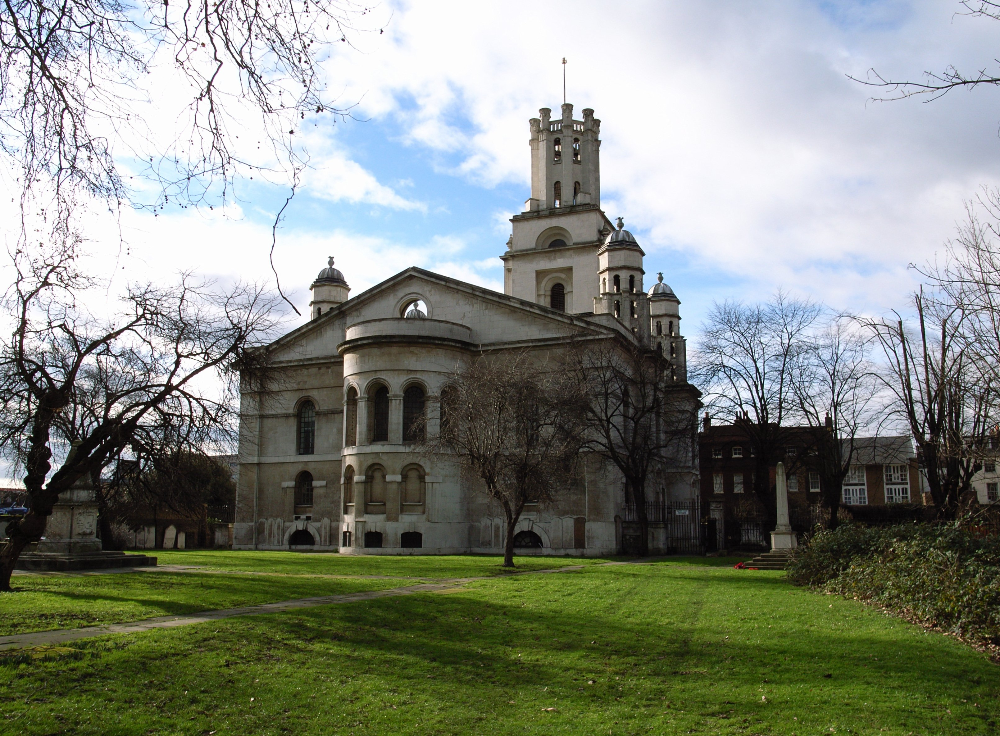 St-George-in-the-East (1714-29), by Nicholas Hawksmoor